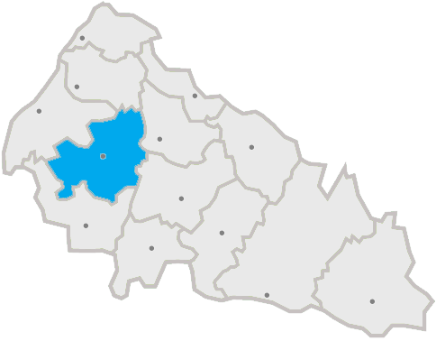 Ukraine, Oblast Transcarpathia, Rajon Mukacheve highlighted